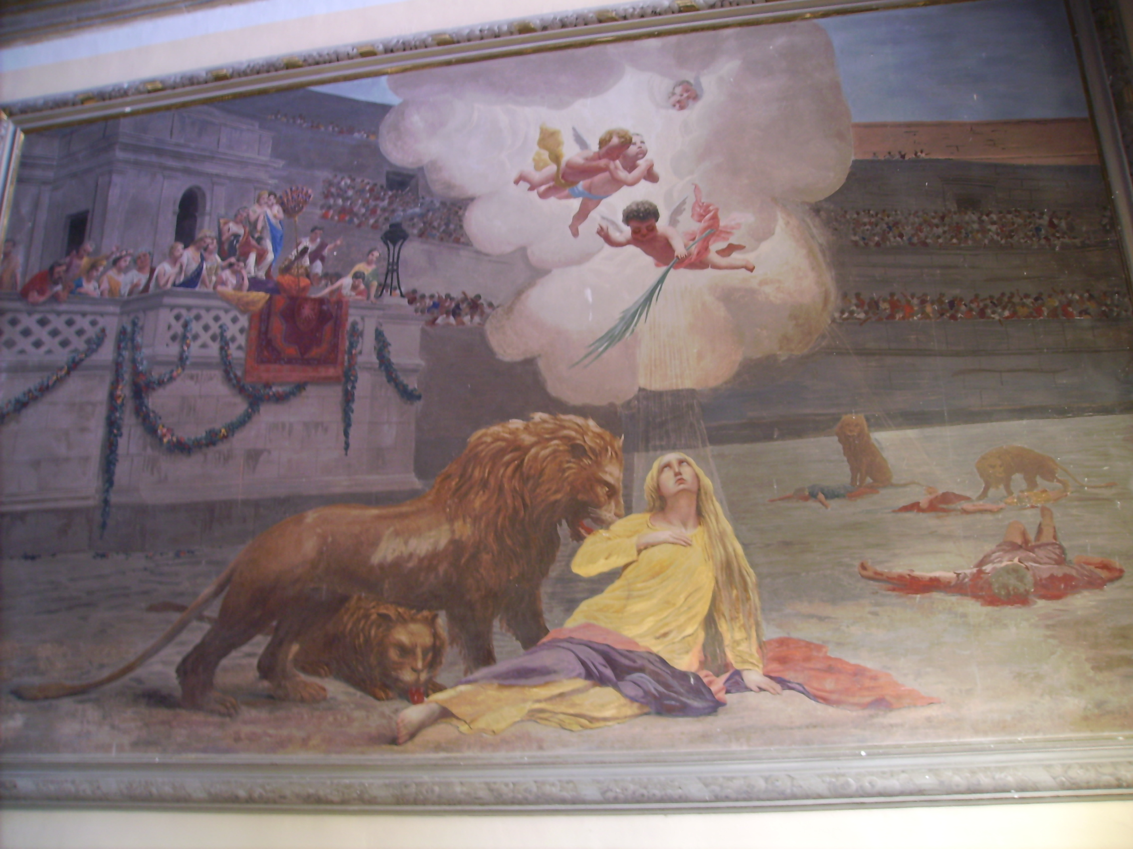 Mural on the left side in Basilica Saint Euphemia in Rovinj, Croatia